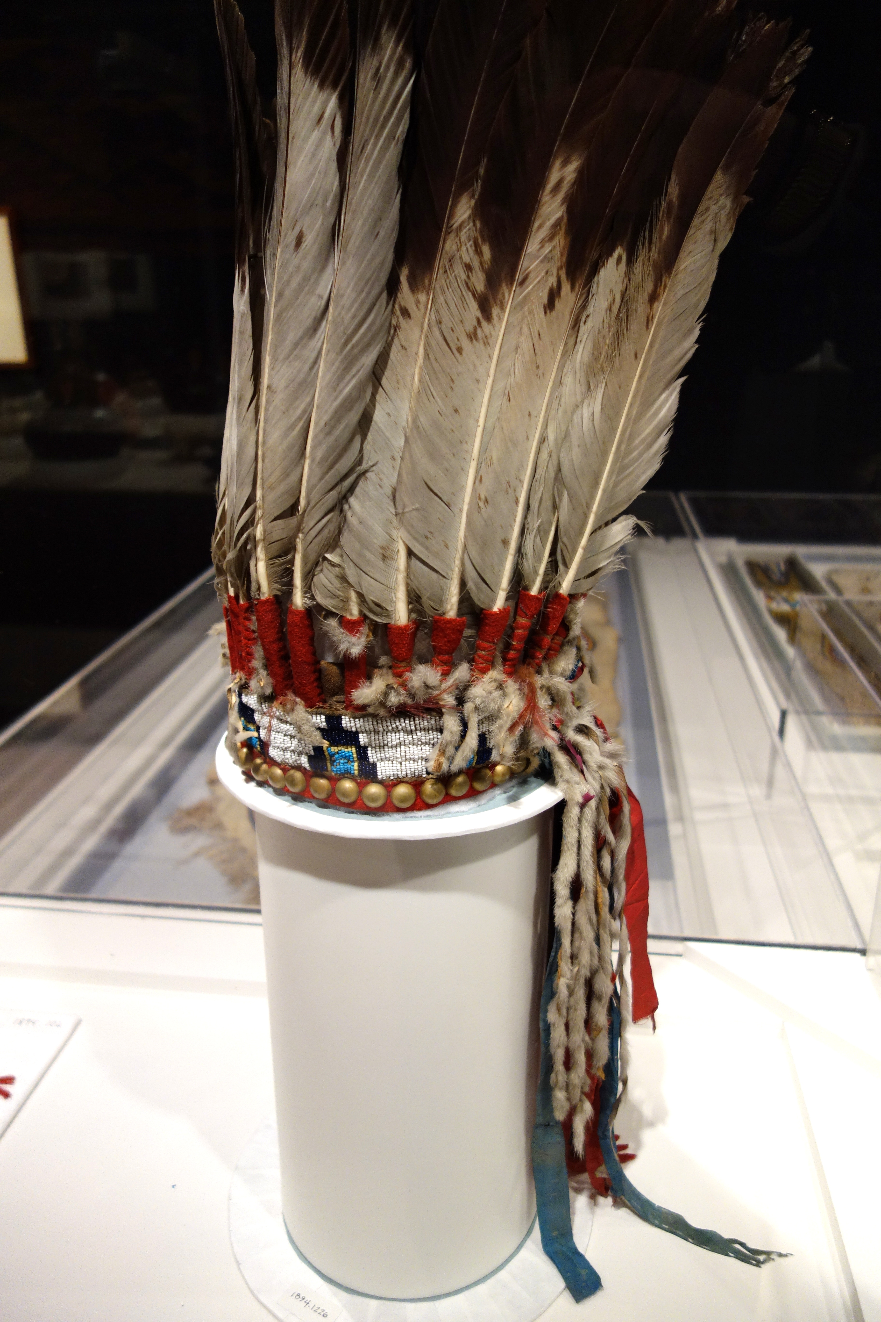 Exhibit in the Cincinnati Art Museum, Cincinnati, Ohio, USA. This artwork is in the public domain because the artist died more than 70 years ago.